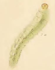 Stainton’s Natural History of the Tineina (1855–1873): Phyllonorycter scabiosella larva